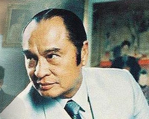 Kamphol Vatcharapol